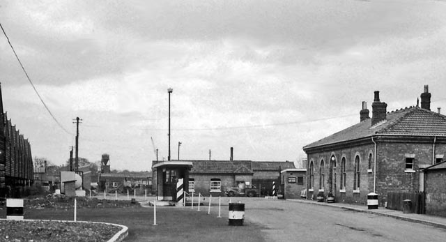 Bridgwater North Station, entrance. View northward on approach road: terminus of ex-Somerset & Dorset Joint branch from Edington Junction, which lost its passenger service 1/12/52. The Goods station here closed 4/10/54, but a new connection with the ex-GW Docks branch allowed goods to continue from Edington Junction to the Bridgwater Docks until 2/1/67.